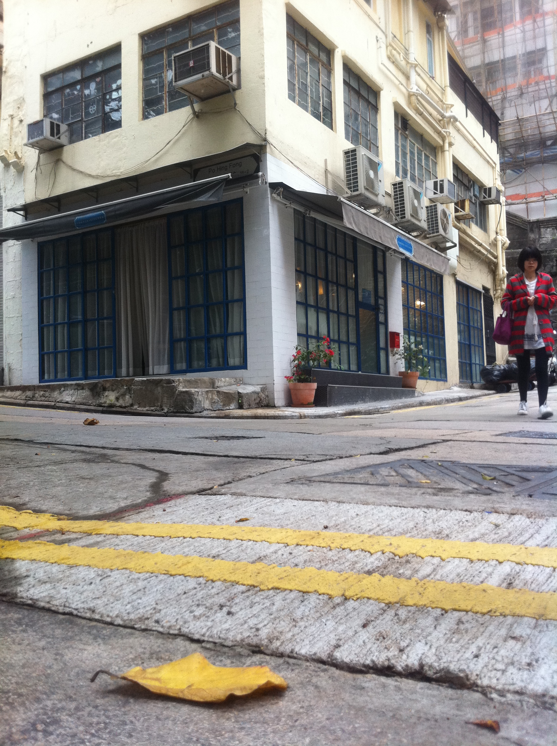 中文（香港）: 上環 Sheung Wan 普慶坊 Po Hing Fong - Now TV 《煮角》Chef Corner 外景場地